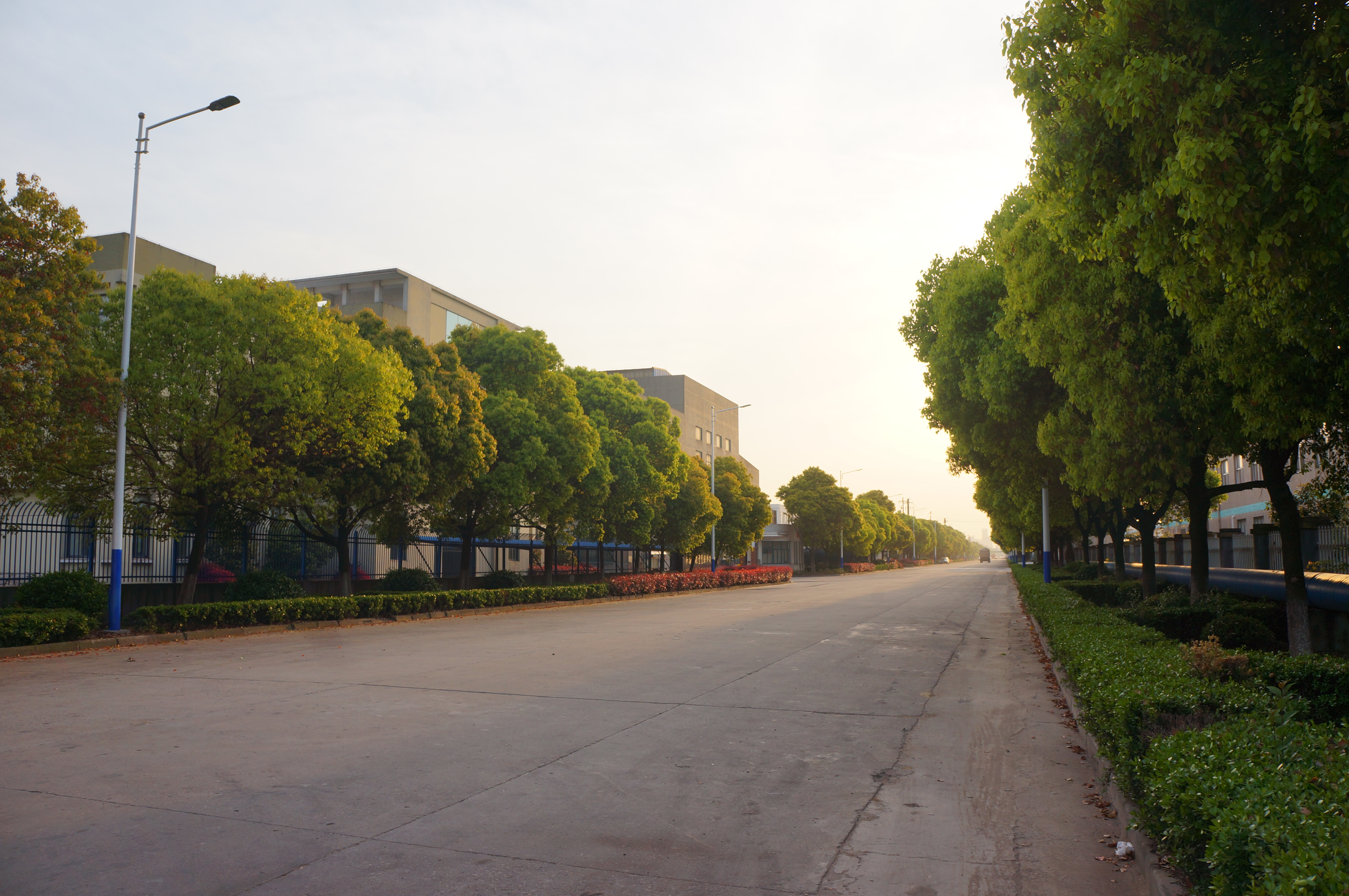 201704 Qianzhou Industrial Park